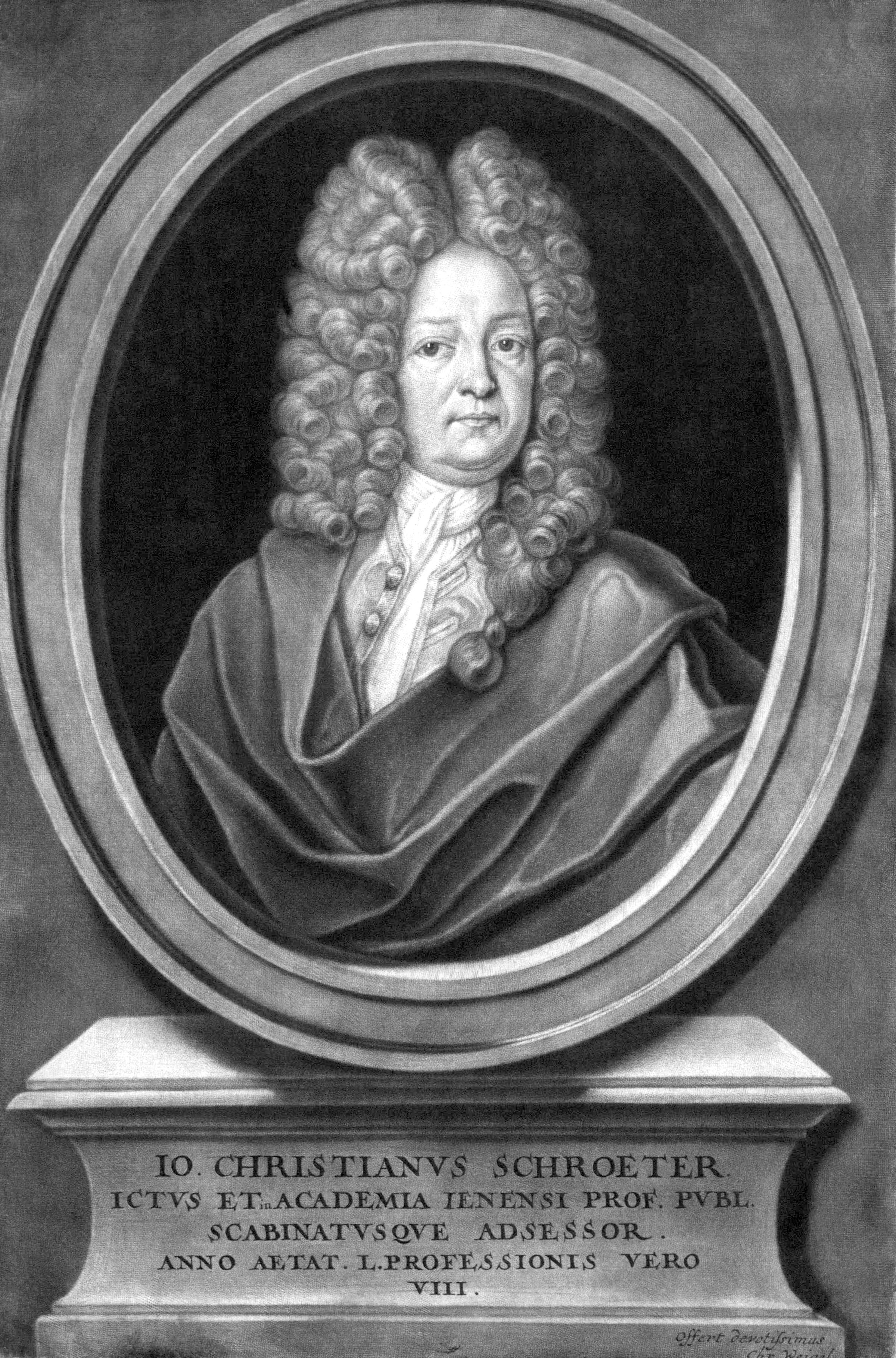 Johann Christian Schroeter (1659-1731) german legal scholar